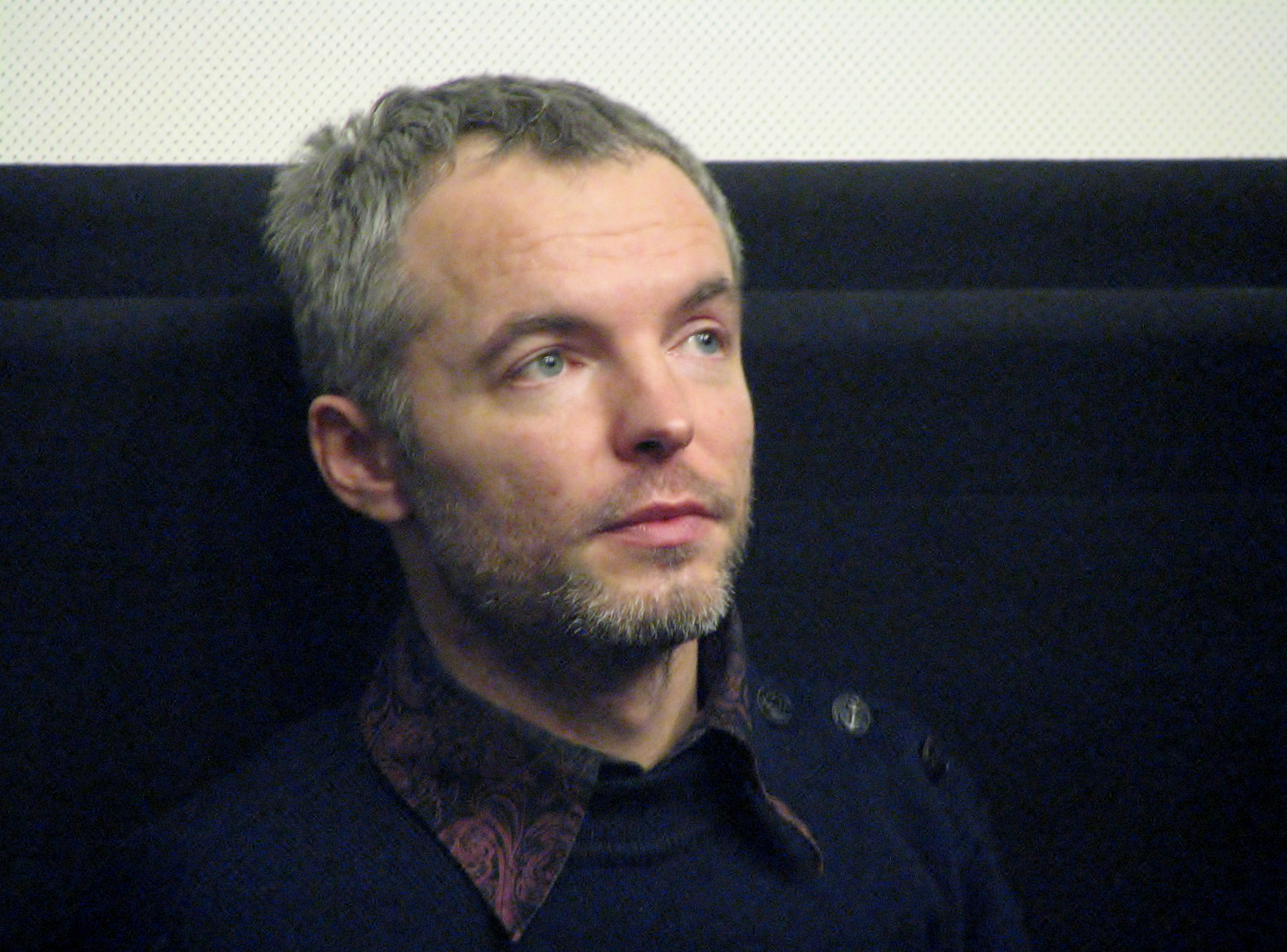 Marko Raat performing during 16th Tallinn Black Nights Film Festival